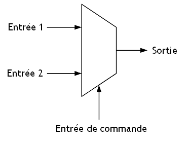 Multiplexeur 2 to 1